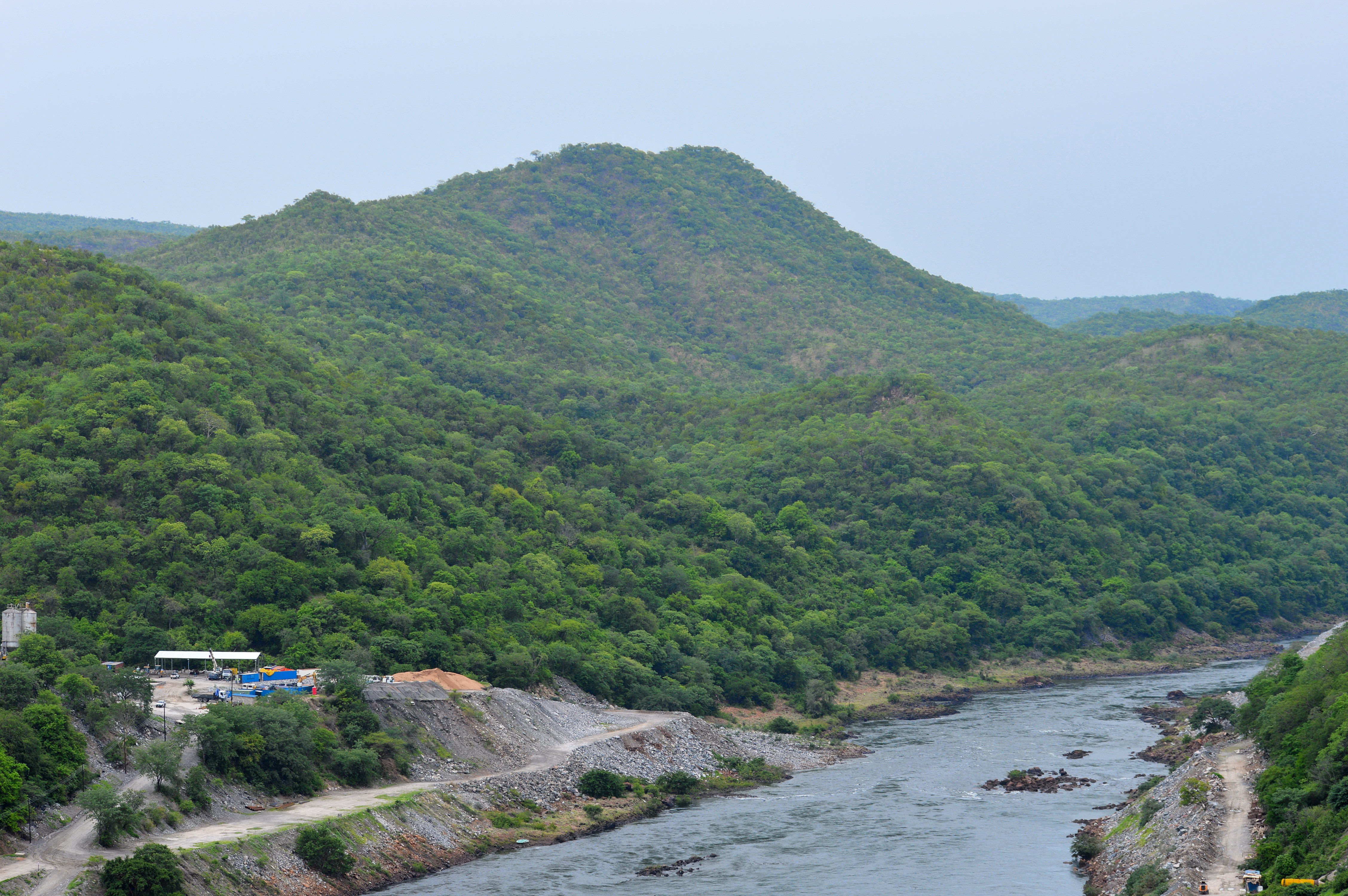 the place is in siavonga,Zambia. The place is between zambia and Zimbabwe border. This is an image with the theme "Africa on the Move or Transport" from: Zambia